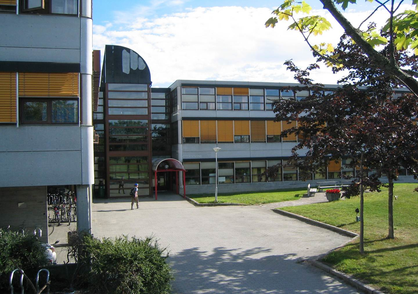 The Marine Technology Center at The Norwegian University of Science and Technology, Trondheim, Norway, erected 1979. Architect: ASPLAN. The architects Jacobsen & Holter completed the building